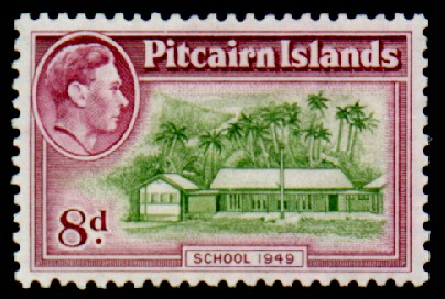 1951 definitive Pitcairn Islands postal stamp